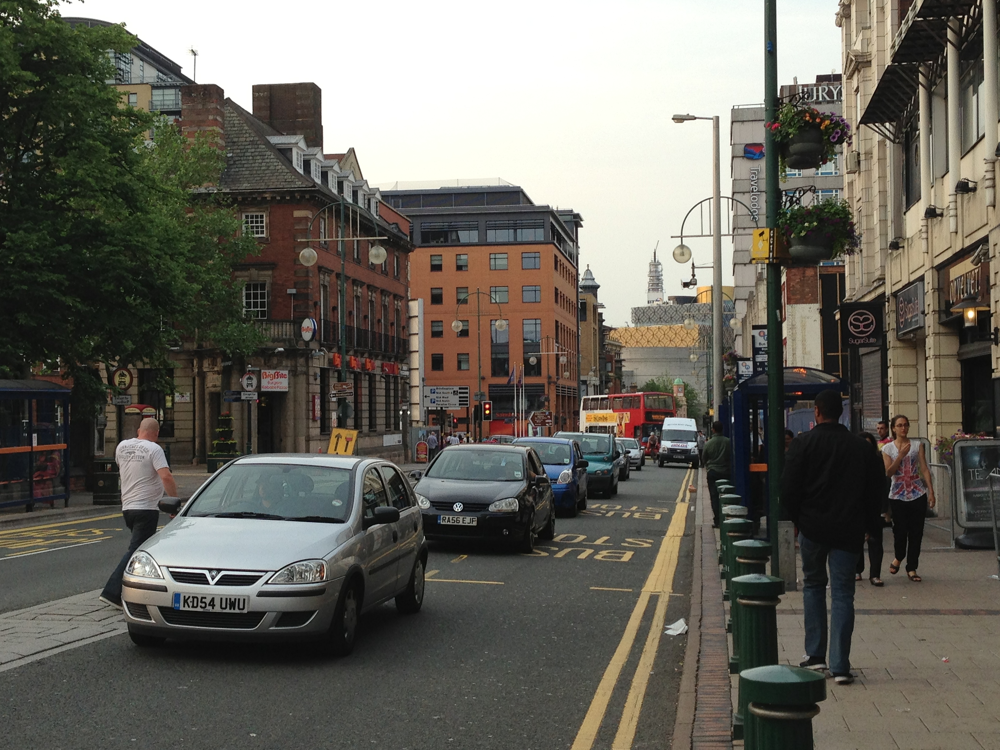 Broad Street, Birmingham, West Midlands, England, UK.